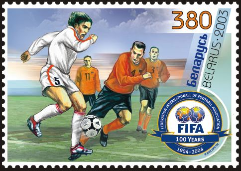 Belarus stamp no. 524, commemorating the Centenary of FIFA.